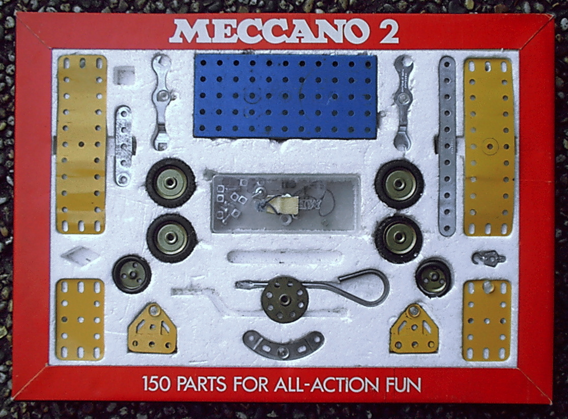 The inner foam packaging and some pieces from a 1970s Meccano 2 set.